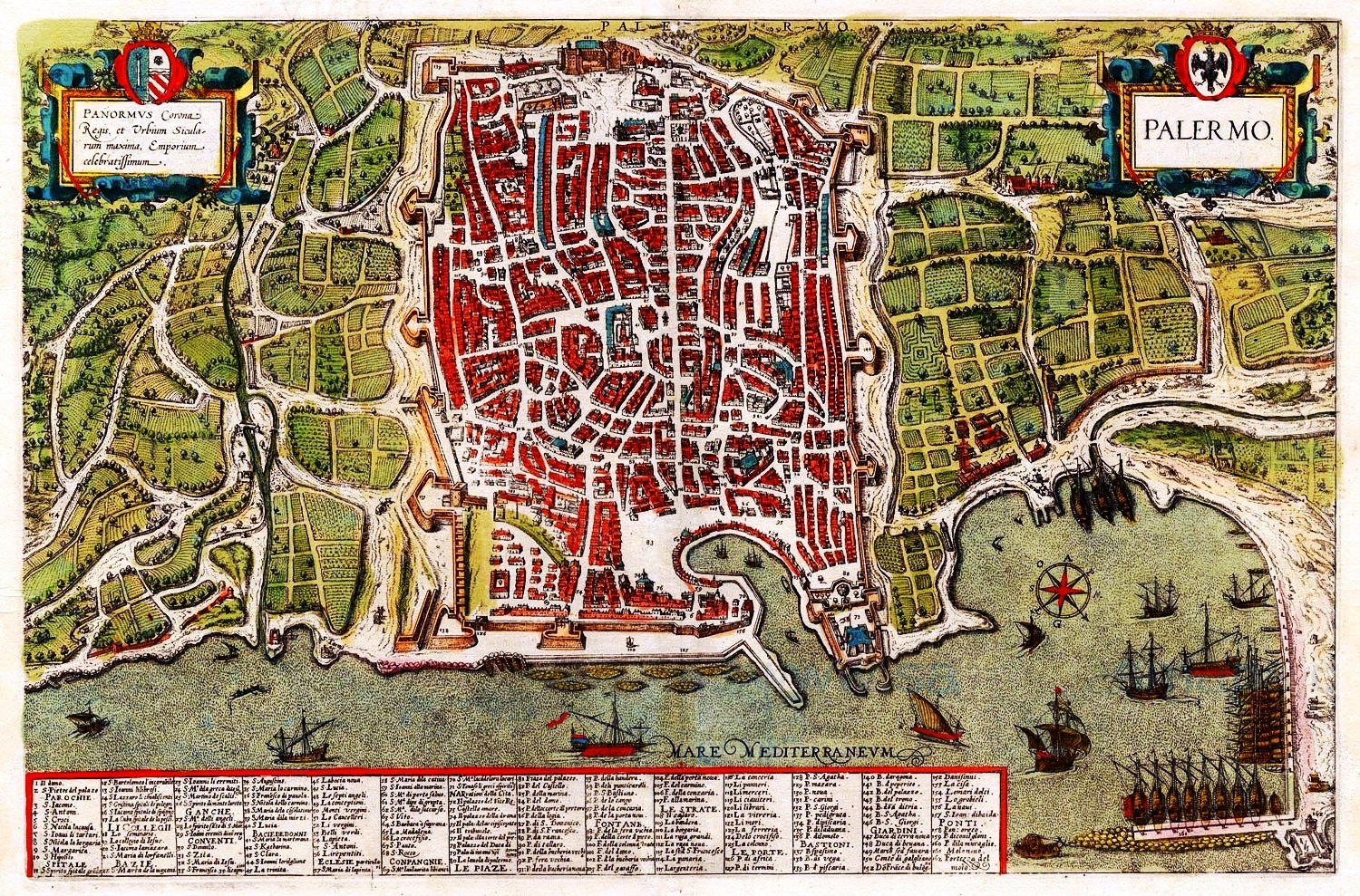 Finely colored view of Palermo (plate n. 56) from Volume 4 of Braun & Hogenberg's Civitates Orbis Terrarum, the most lavish and important town view book made in the 16th Century. Volume 4, Urbium praecipuarum totius mundi was published in Cologne (Germany) in 1588-1597, with engravings by Franz Hohenberg and Simon van den Neuvel.